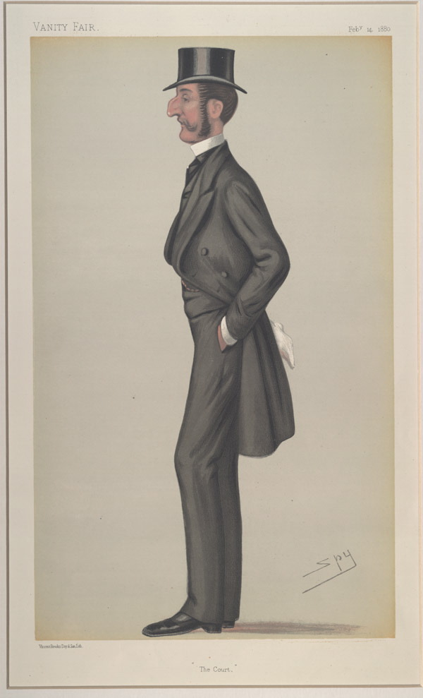 Statesmen No.321: Caricature of Col Robert Nigel Fitzhardinge Kingscote MP. Caption reads: "The Court"